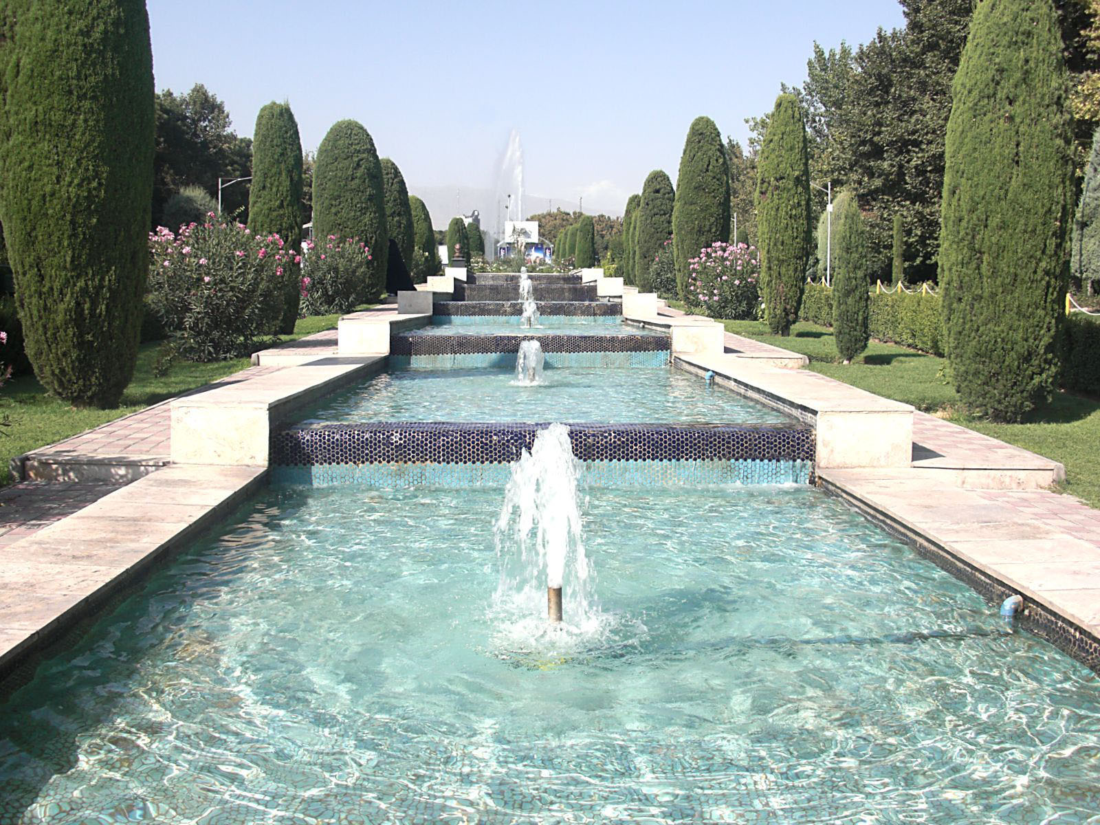 Laleh Park in summer